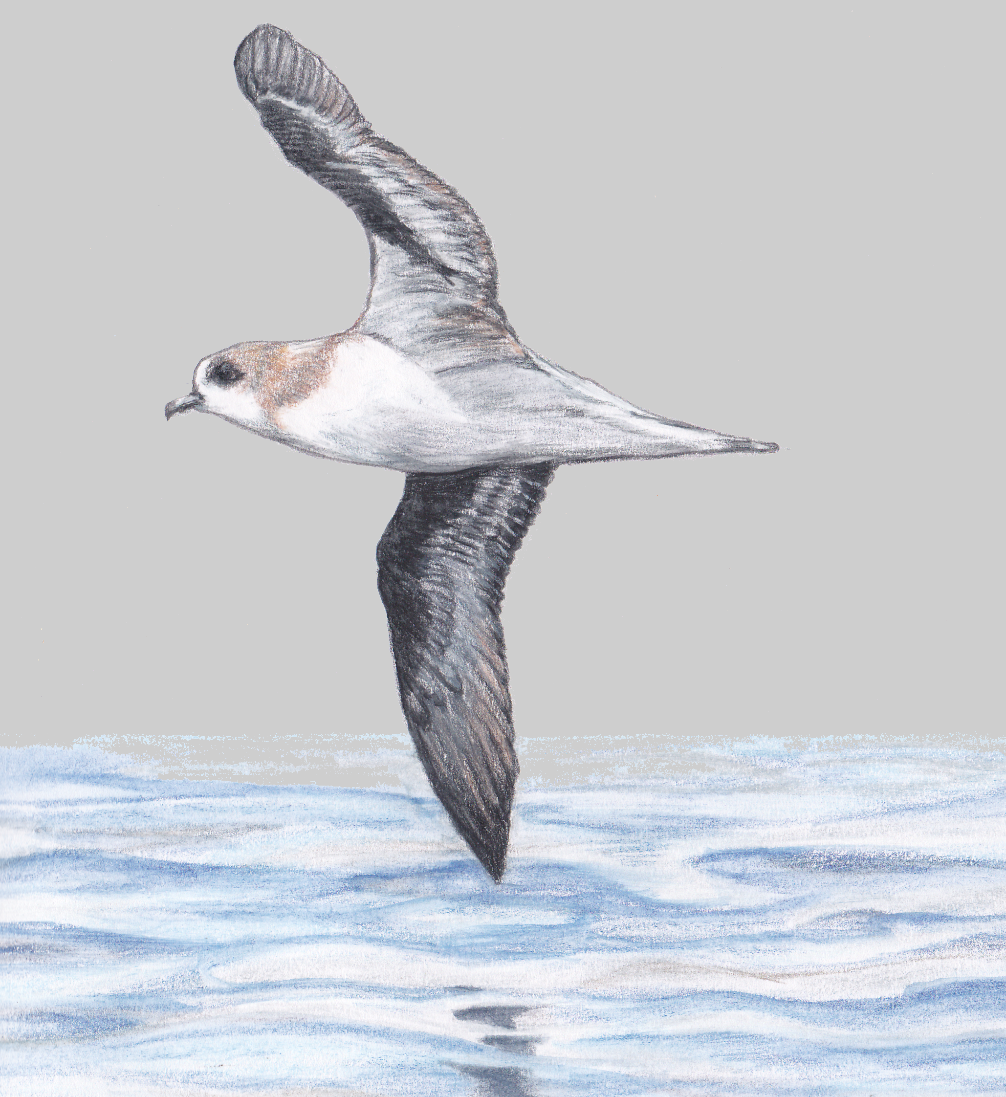 Watercolour pencil sketch of Zino's Petrel, Pterodroma madeira